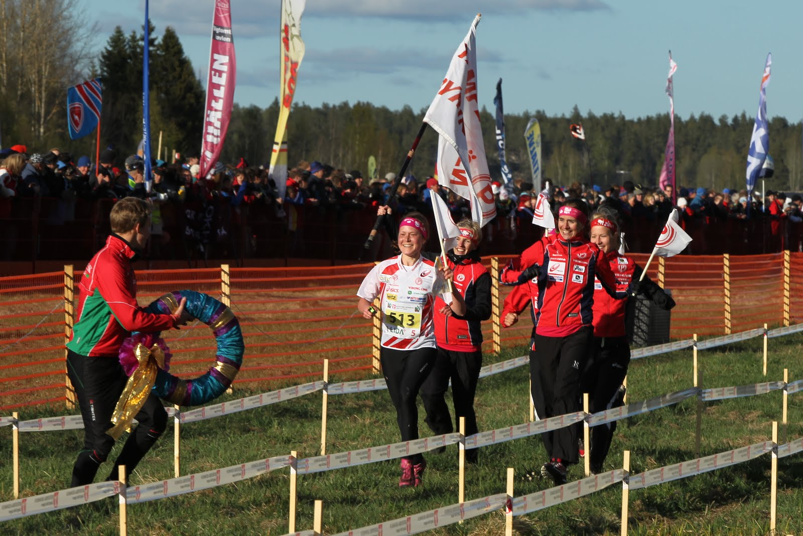 Tiomila 2011. Tampereen_Pyrintö